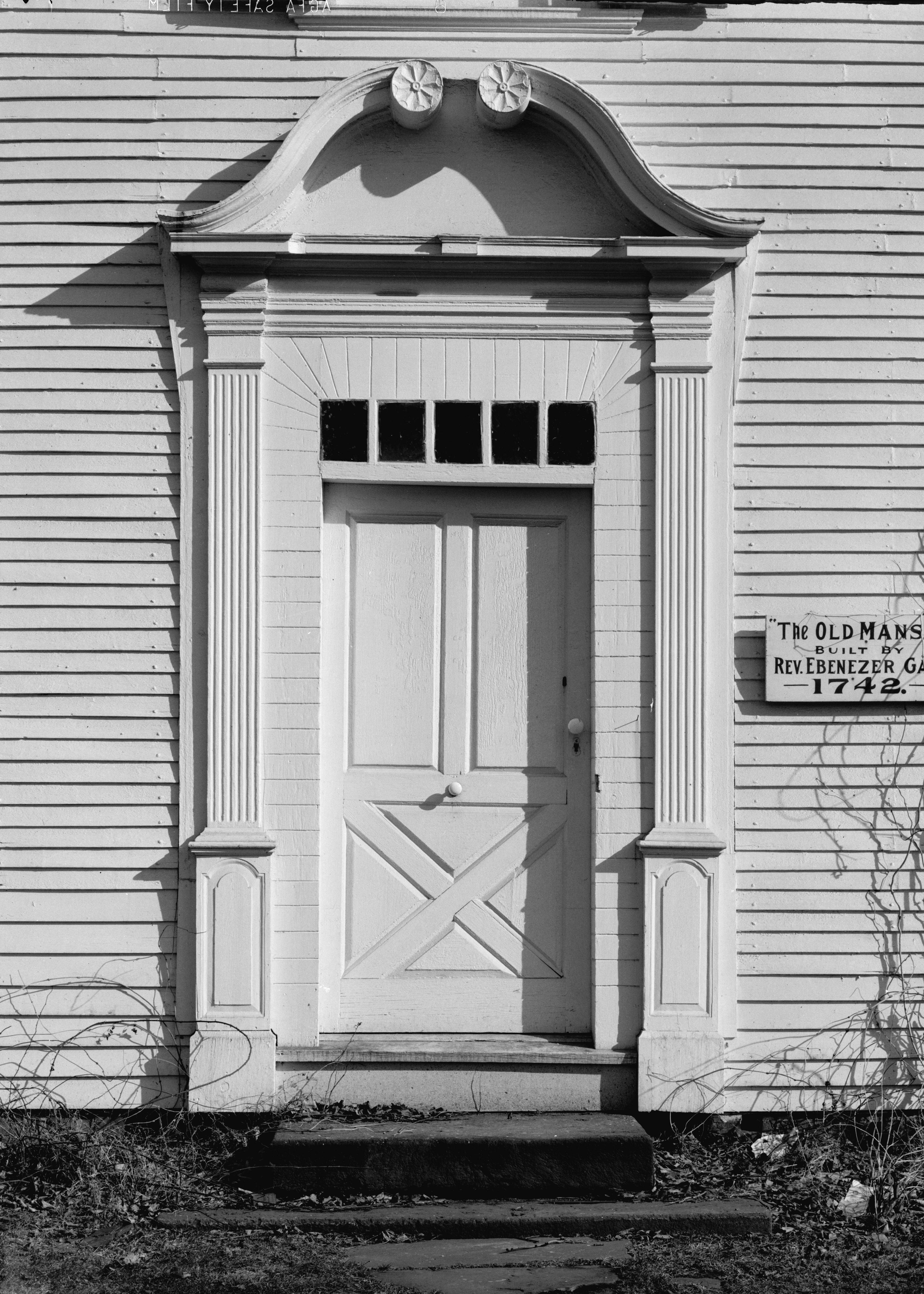 Doorway detail of the Reverend Ebenezer Gay House, Route 75, Suffield, Hartford County, Connecticut. Historic American Buildings Survey, Library of Congress, Washington, D. C.